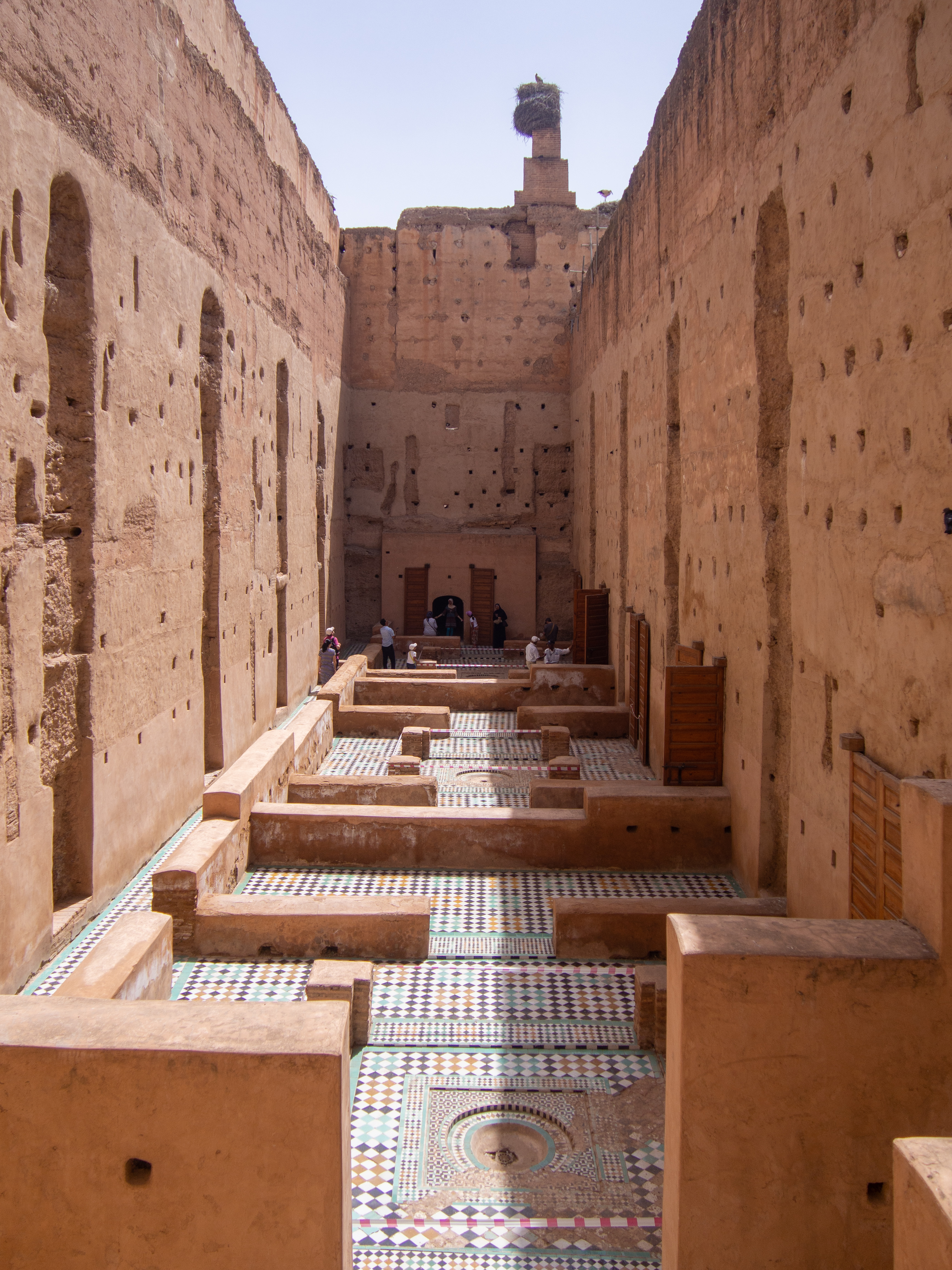 El Badi Palace